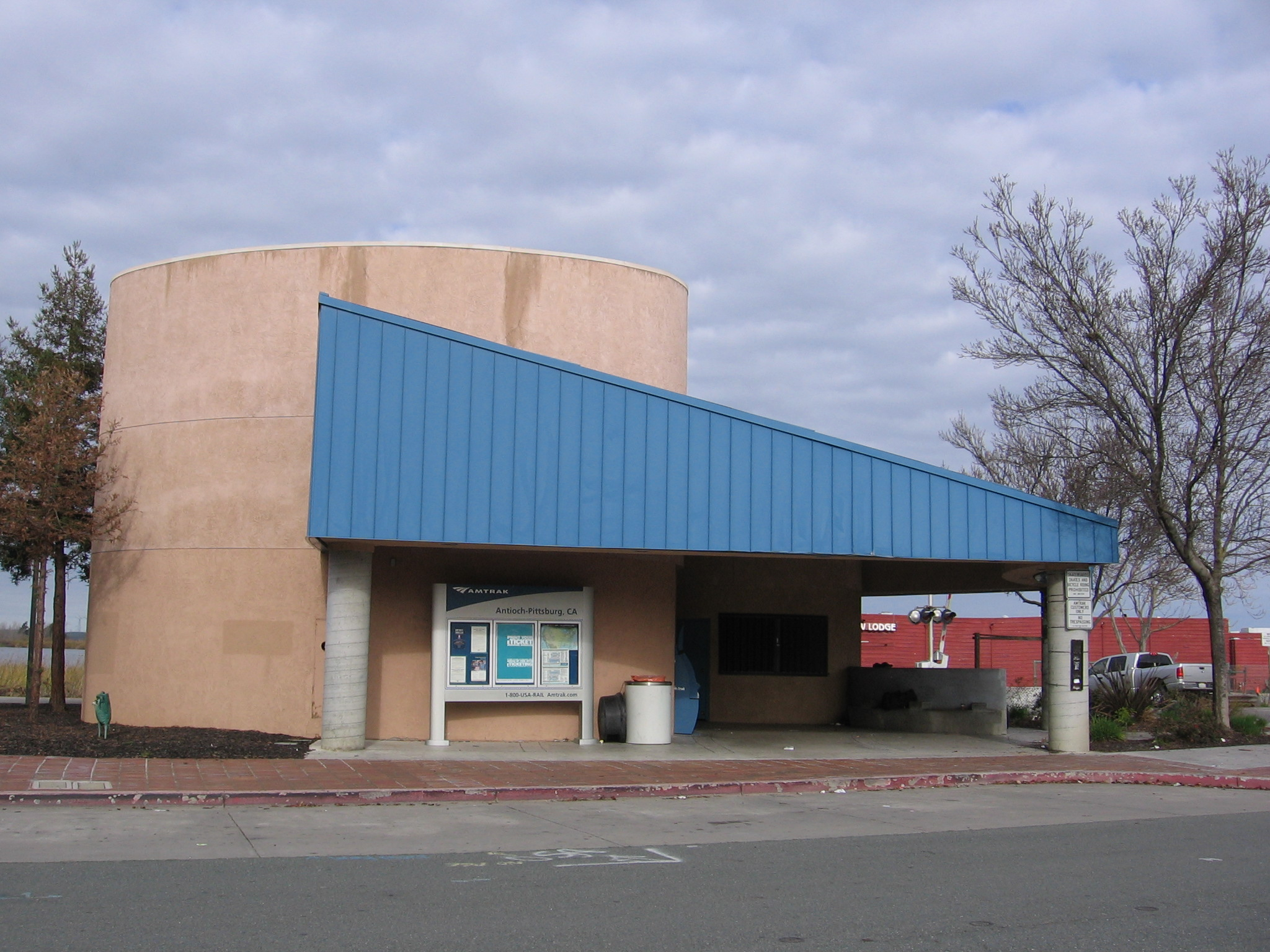 The Antioch-Pittsburg (Amtrak station) in Antioch, California, USA. View is looking north across 1st Street.